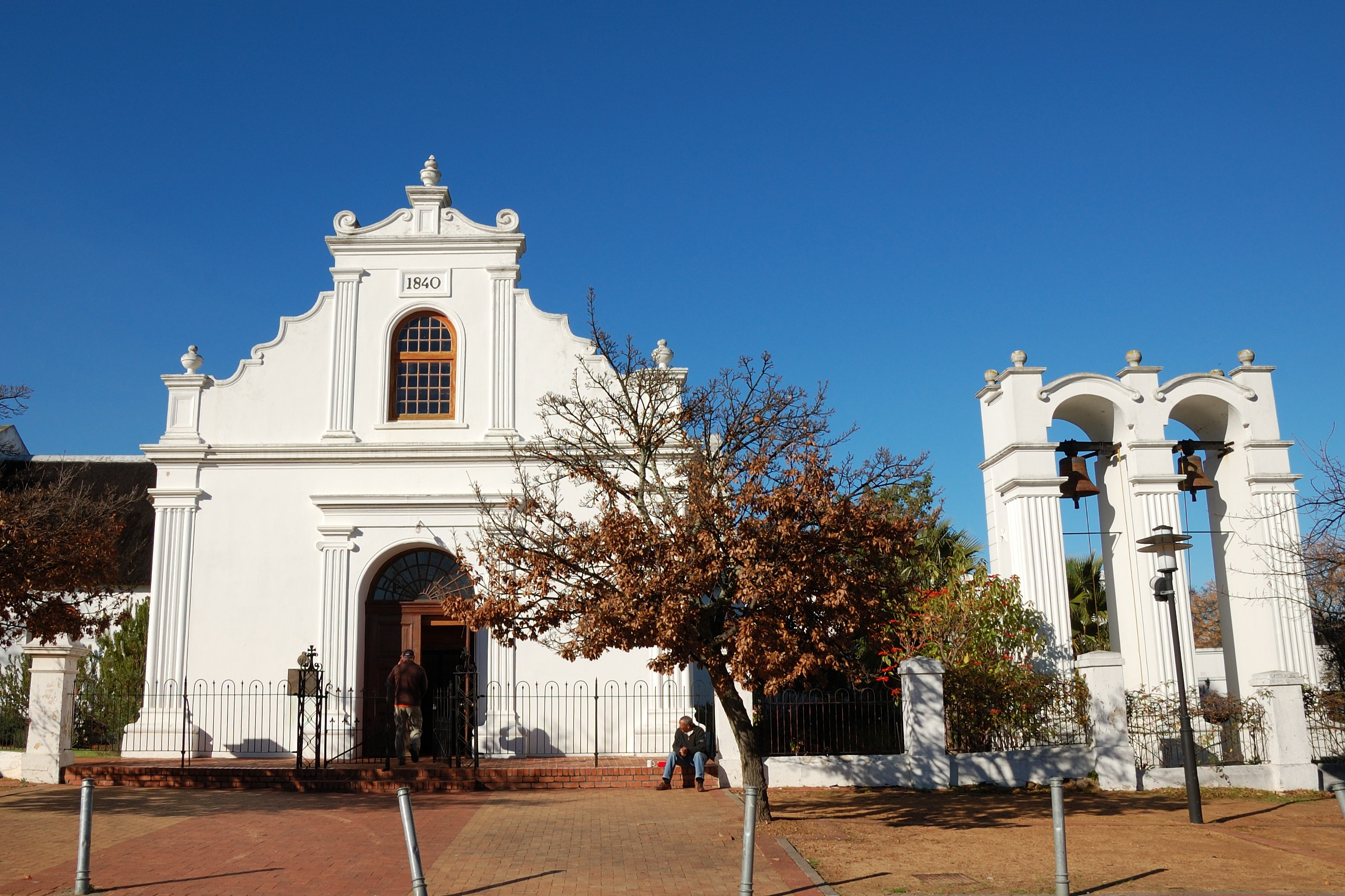 Stellenbosch, South Africa [2012]